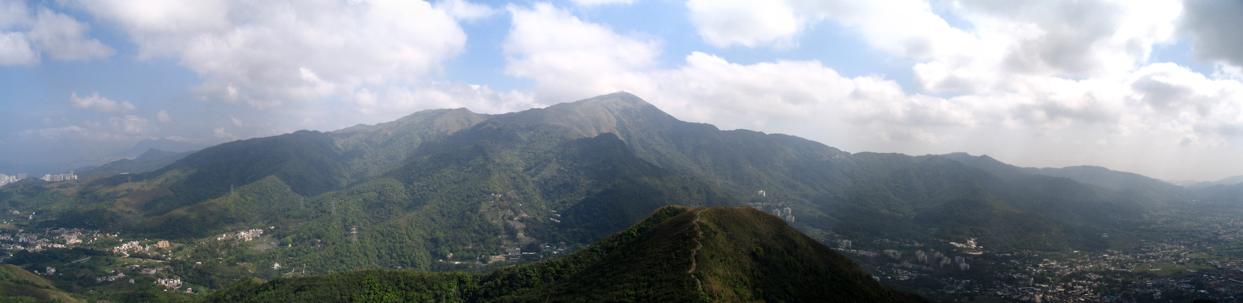 Panoramic photo of Tai Mo Shan, combined from 2390324650, 2390325982, 2390327132, 2389494229, 2389495255 and 2389496267